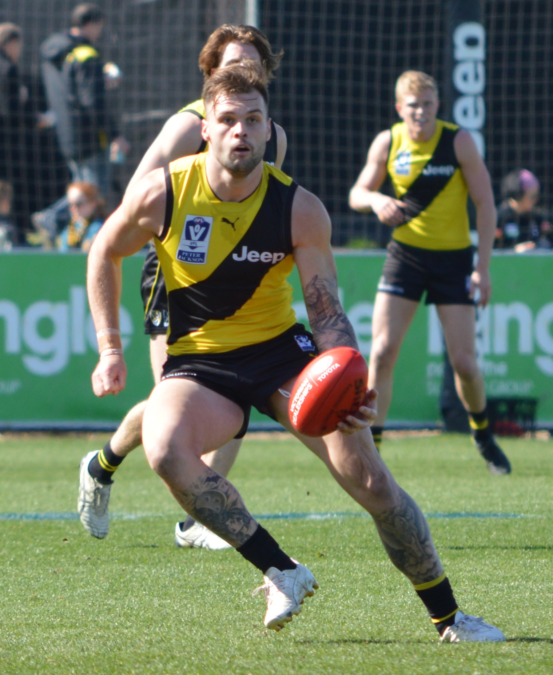 Ben Lennon sells the dummy during a VFL game in August 2017